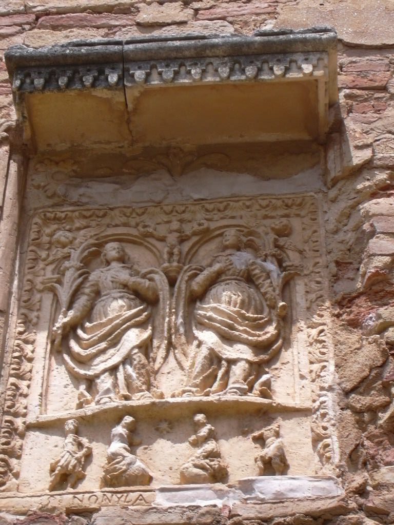 Alquézar - Detail in colegiate church - Saints Nunilo and Alodia